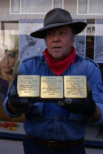 Gunter Demnig on April 6, 2010 showing 3 Stolpersteine in Werkendam/The Netherlands